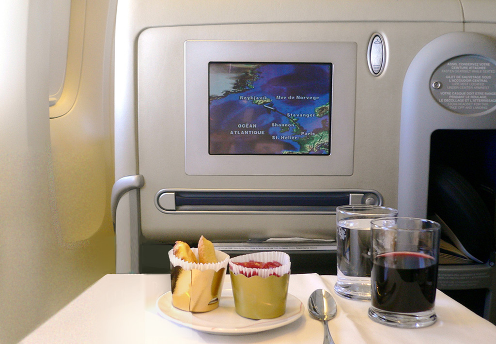 Air France L'Espace Affaires (business class) cabin on a Boeing 777.